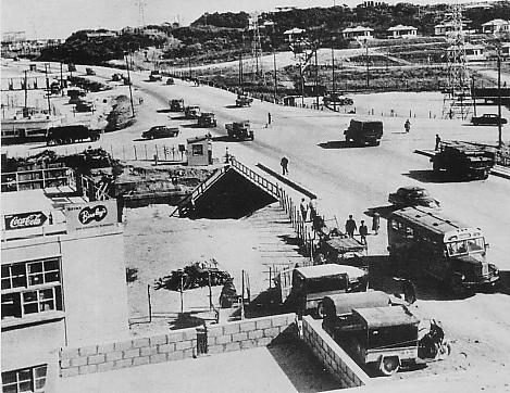 Ryukyuan Highway 1 in 1954